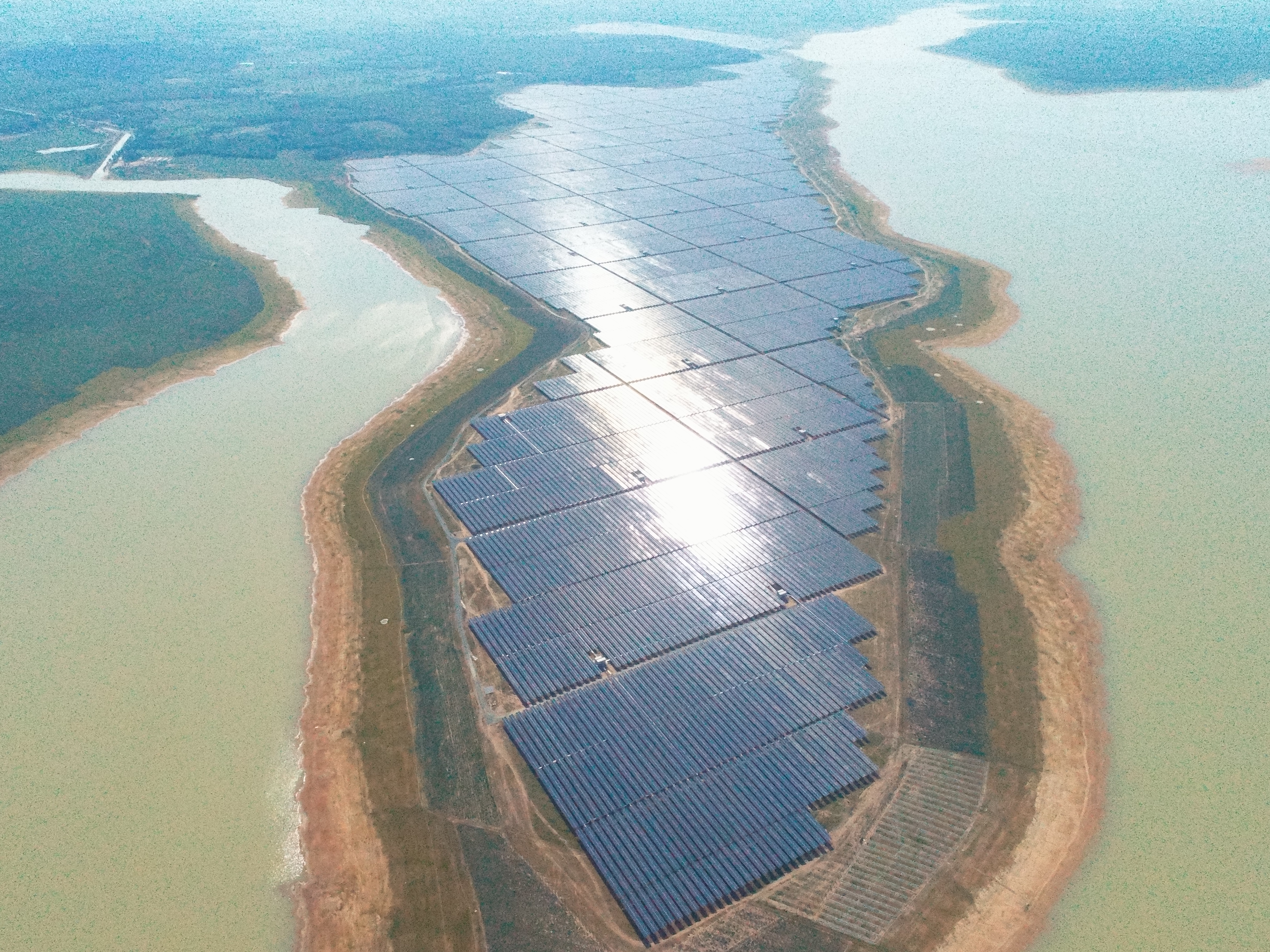 Overall view of Dau Tieng Solar Power Project, Vietnam